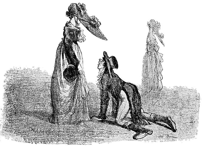 A satire on the beaked bonnet by French artist "Cham" (Amédée de Noé) -- the man is proceeding to desperate measures to try to get a glimpse of the lady's face (hidden under her bonnet when she looks down) as he is conversing with her... Probably drawn in the 1840's, but apparently depicting the fashions of the early 1820's(?). The signature ("CHAM") is at lower left.